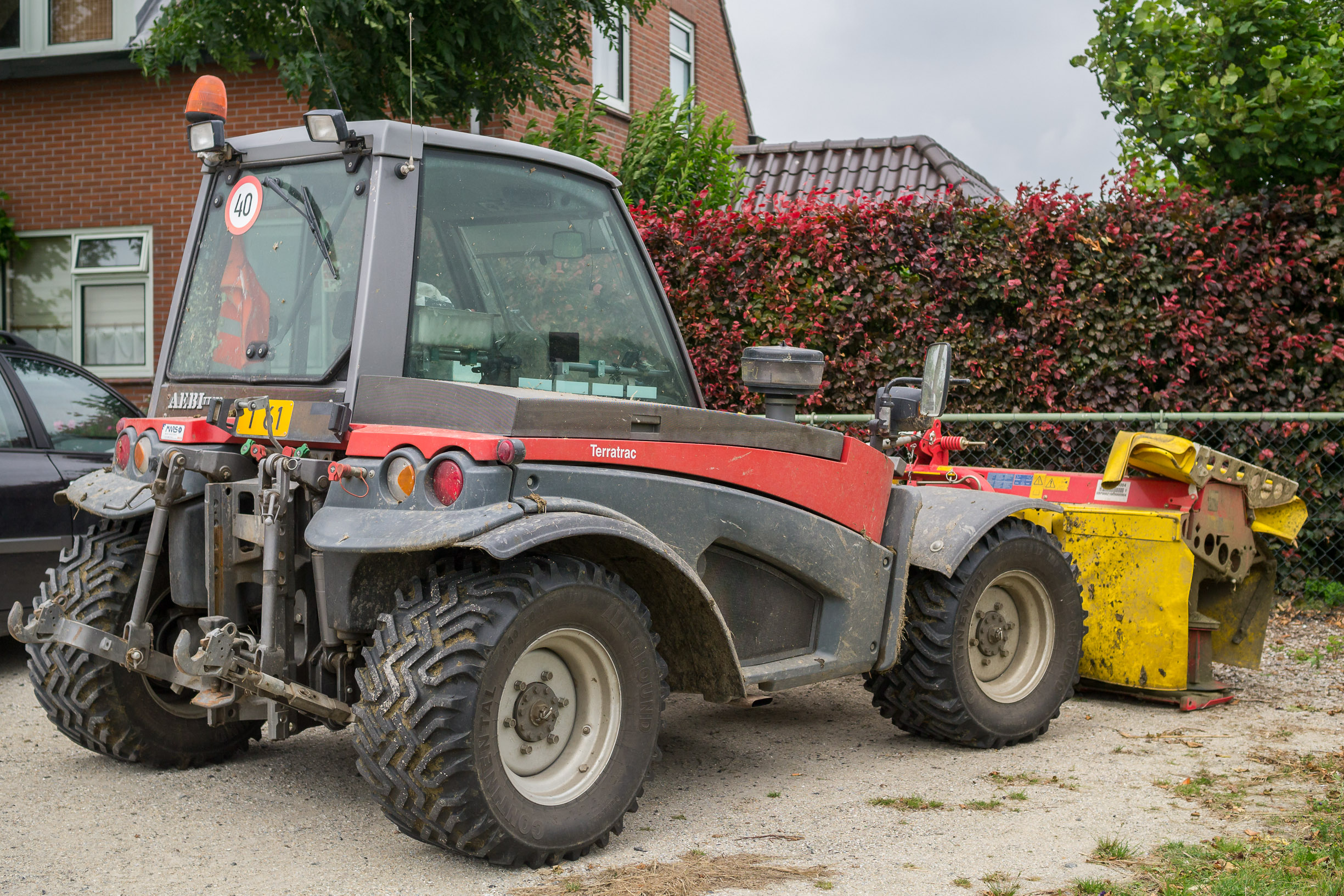 Aebi Terratrac with mower